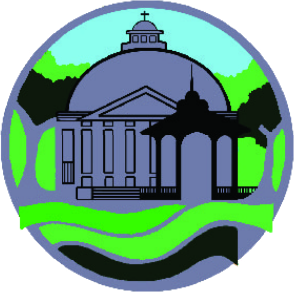 Official emblem of the Buenos Aires' neighborhood of Belgrano.